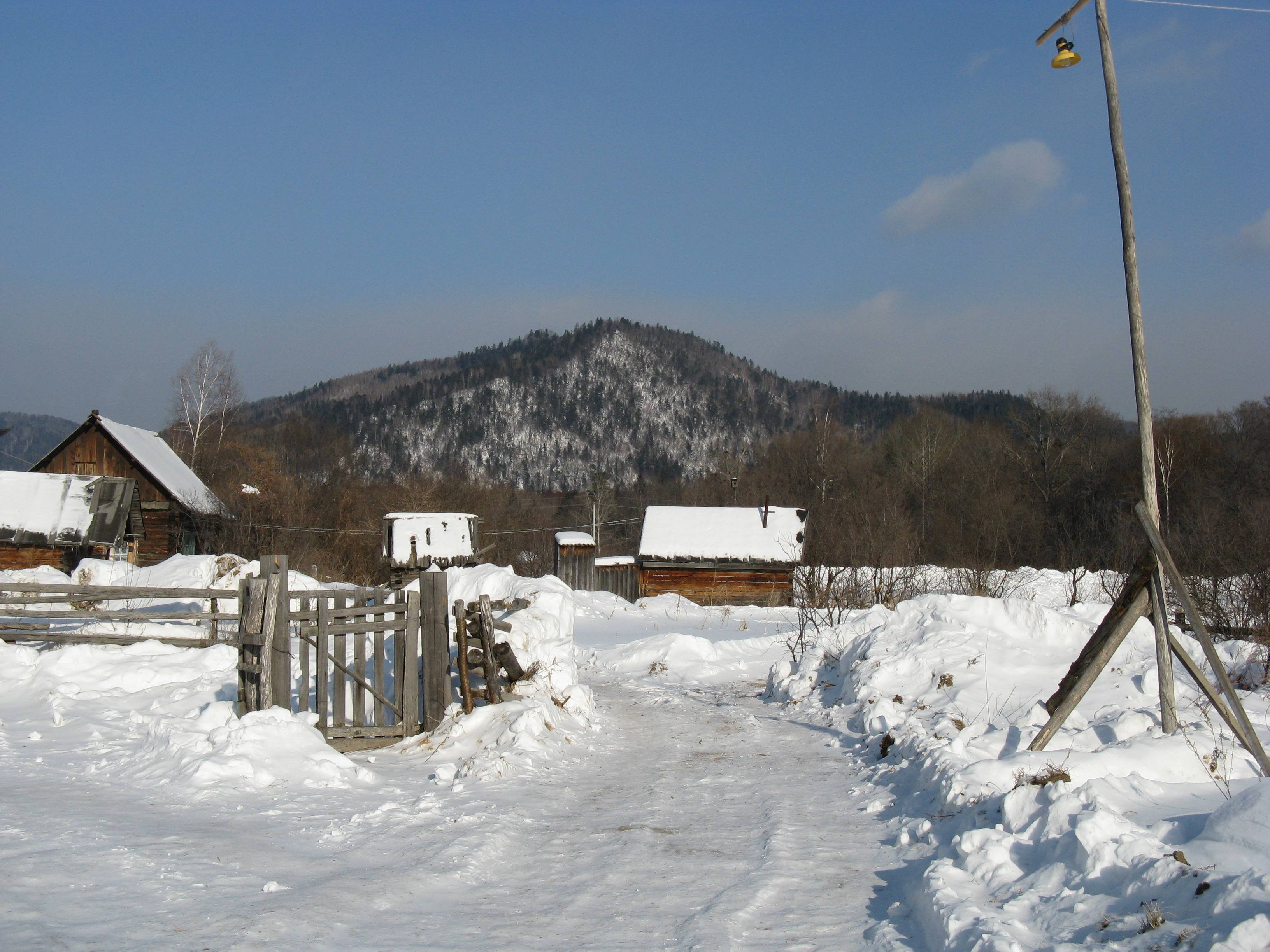 Topolevyi in winter-1